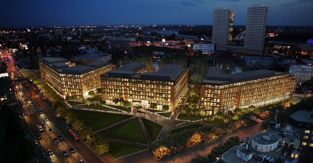 Twin City Business District in Bratislava, Slovakia made by HB Reavis